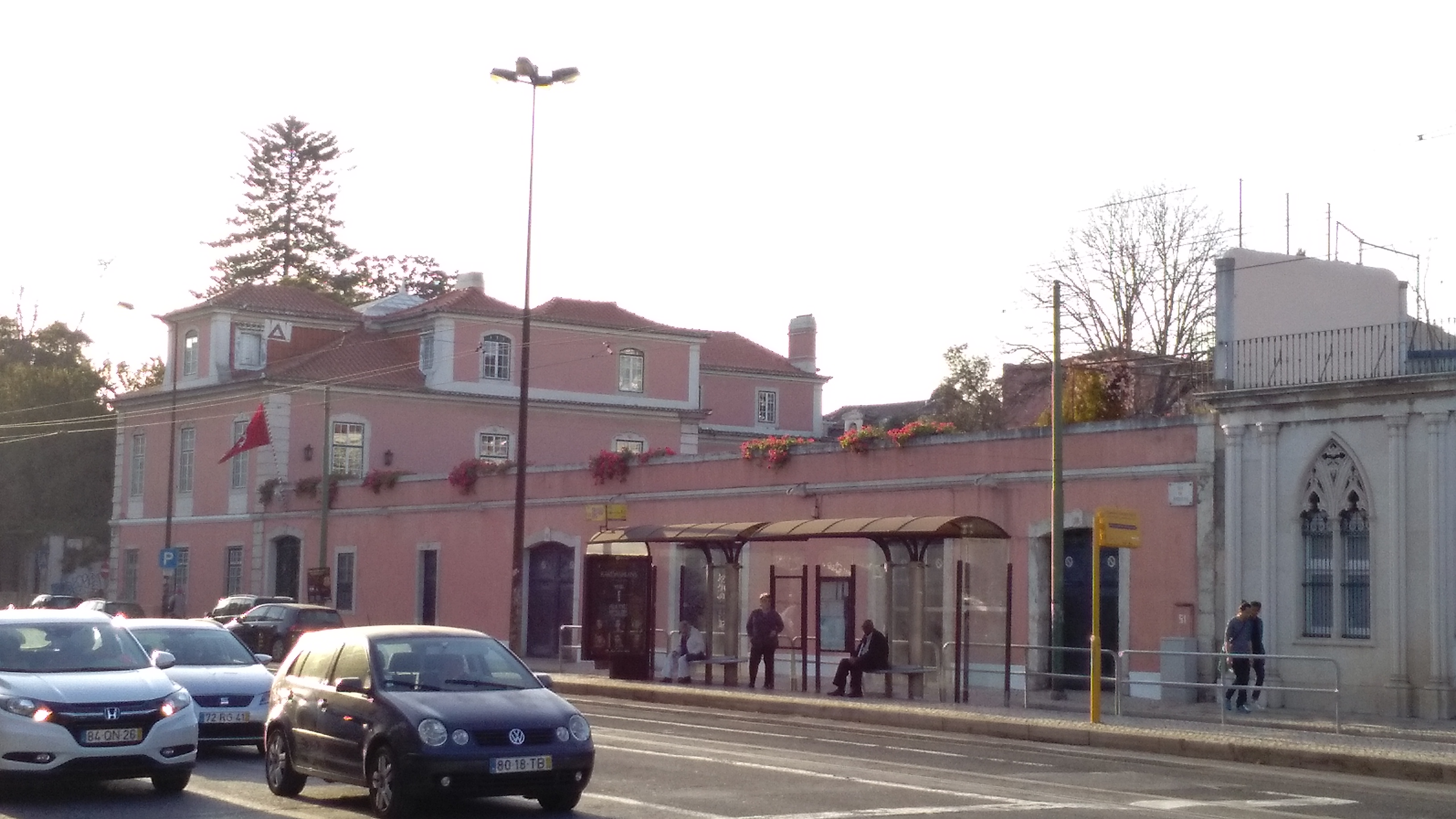 General view of Sovereign Military Order of Malta Embassy in Lisbon, Portugal.